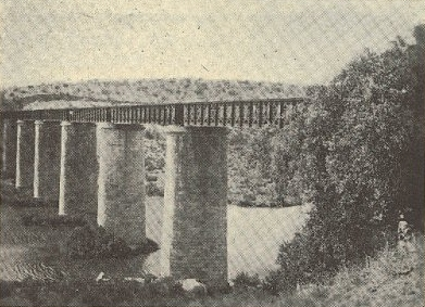 Guadiana road-rail bridge, in the former Ramal de Moura (Moura branch line), in Portugal. This photograph was published on the Gazeta dos Caminhos de Ferro magazine No. 1297, of 1st January 1942, and scanned by the Hemeroteca Municipal de Lisboa.